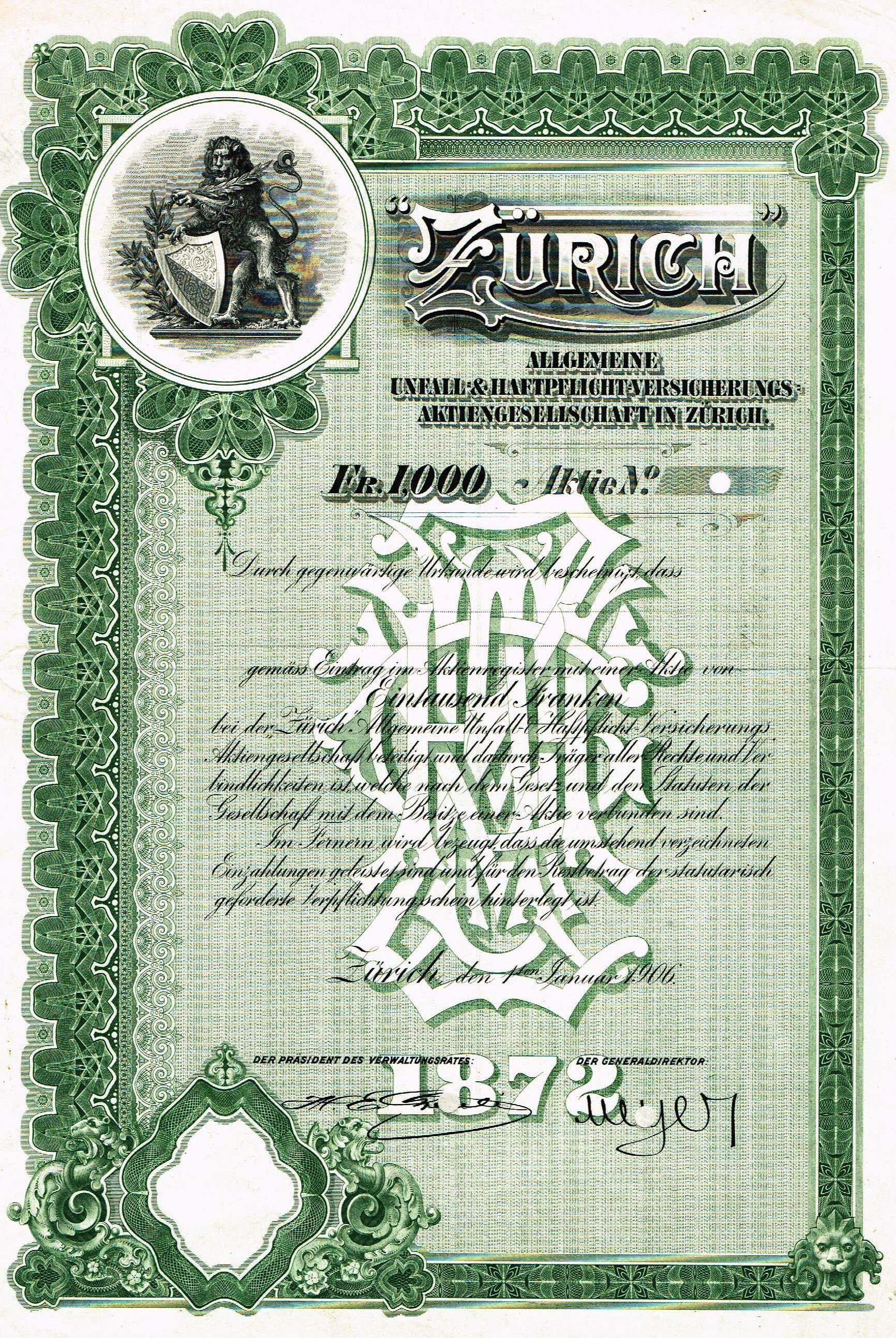 Share of the Zürich Allgemeine Unfall- & Haftpflichtversicherungs-AG, unissued